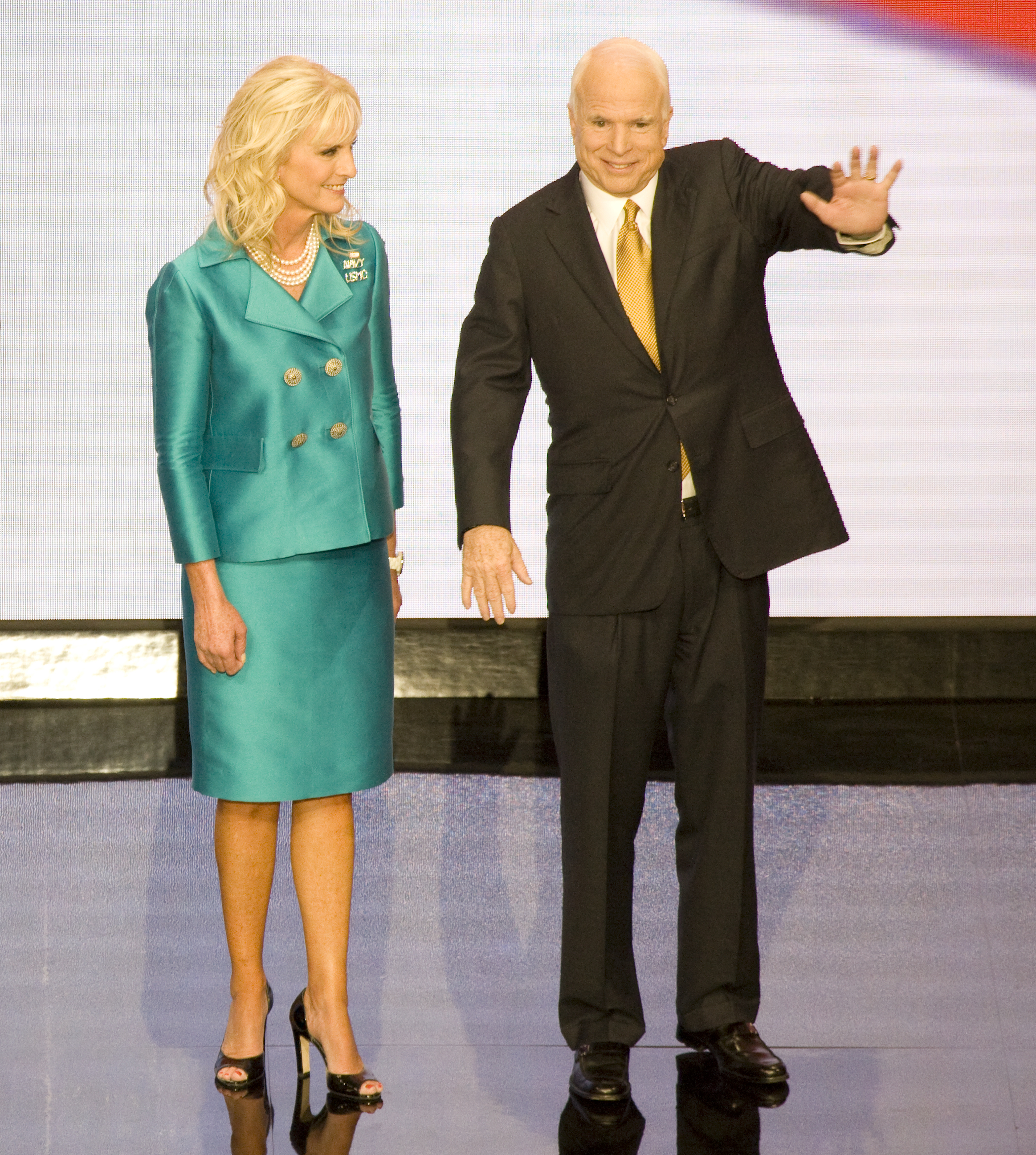 Title: Republican National Convention, September 1-4, 2008. Sarah and Todd Pailin with John and Cindy McCain on stage, St. Paul, Minnesota Physical description: 1 photograph : digital, TIFF file, color. Notes: Credit line: Photographs in the Carol M. Highsmith Archive, Library of Congress, Prints and Photographs Division.; Forms part of the Carol M. Highsmith Archive.; Gift; Carol M. Highsmith; 2009; (DLC/PP-2009:083-1).; Title and date provided by the photographer.